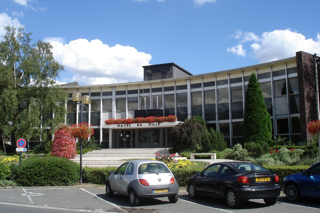 Town hall of Avion (62210, France). Photo taken by Sofian.